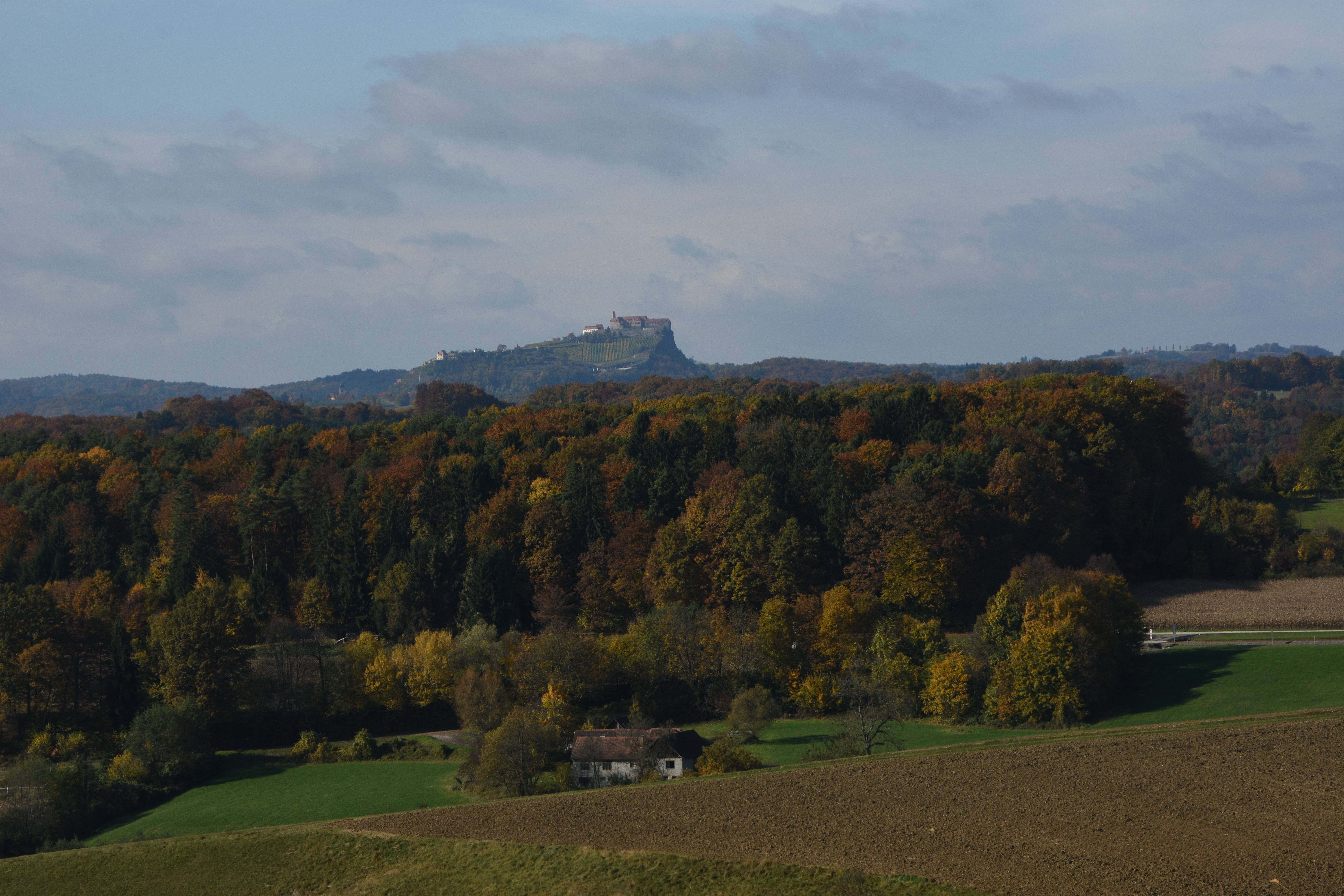 Steirisches Vulkanland